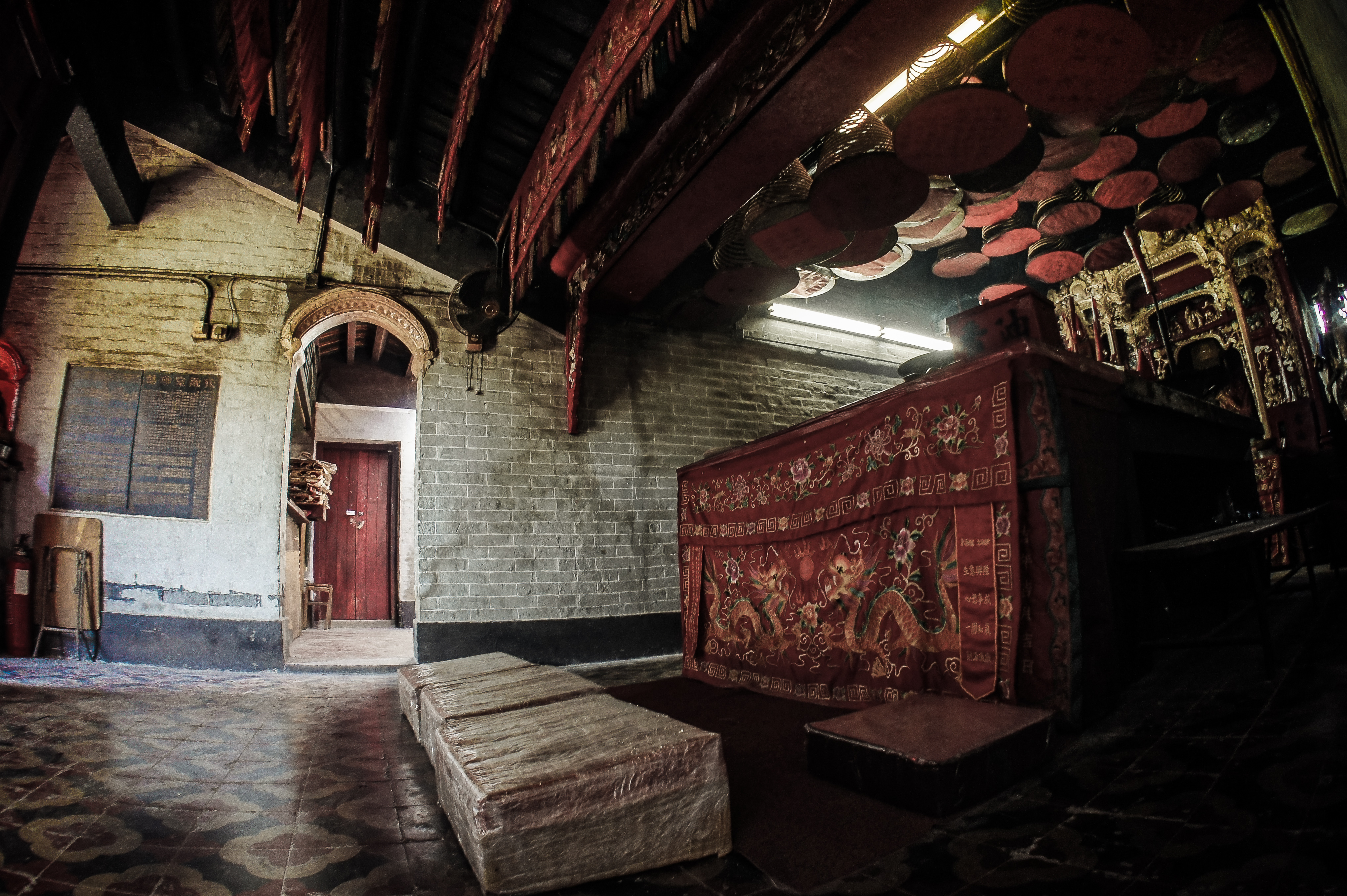 Main shrine of the Hau Wong Temple, Tung Chung, Lantau Island, Hong Kong.